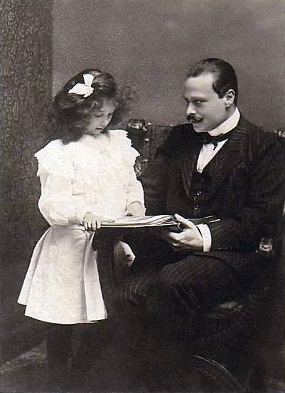 This photo of Grand Duke Ernst Ludwig of Hesse with his daughter Princess Elisabeth of Hesse is probably from 1901 or 1902. The child died in November 1903 at age eight. Weiland is an old german word which means 'it was, formerly', so the postcard is surely published after the death of the princess in 1903. I uploaded the photograph from a posting at Alexander